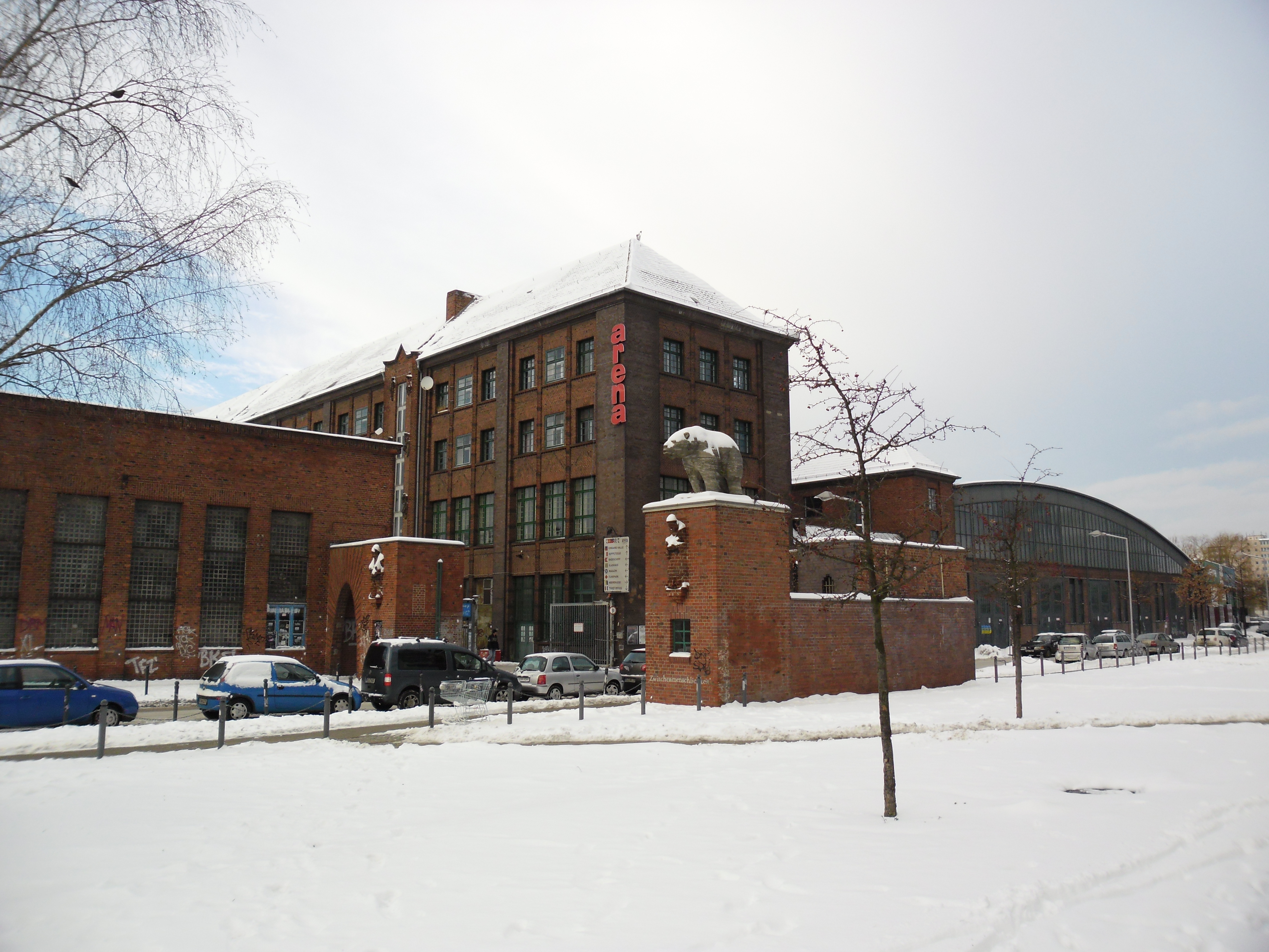 Arena Berlin